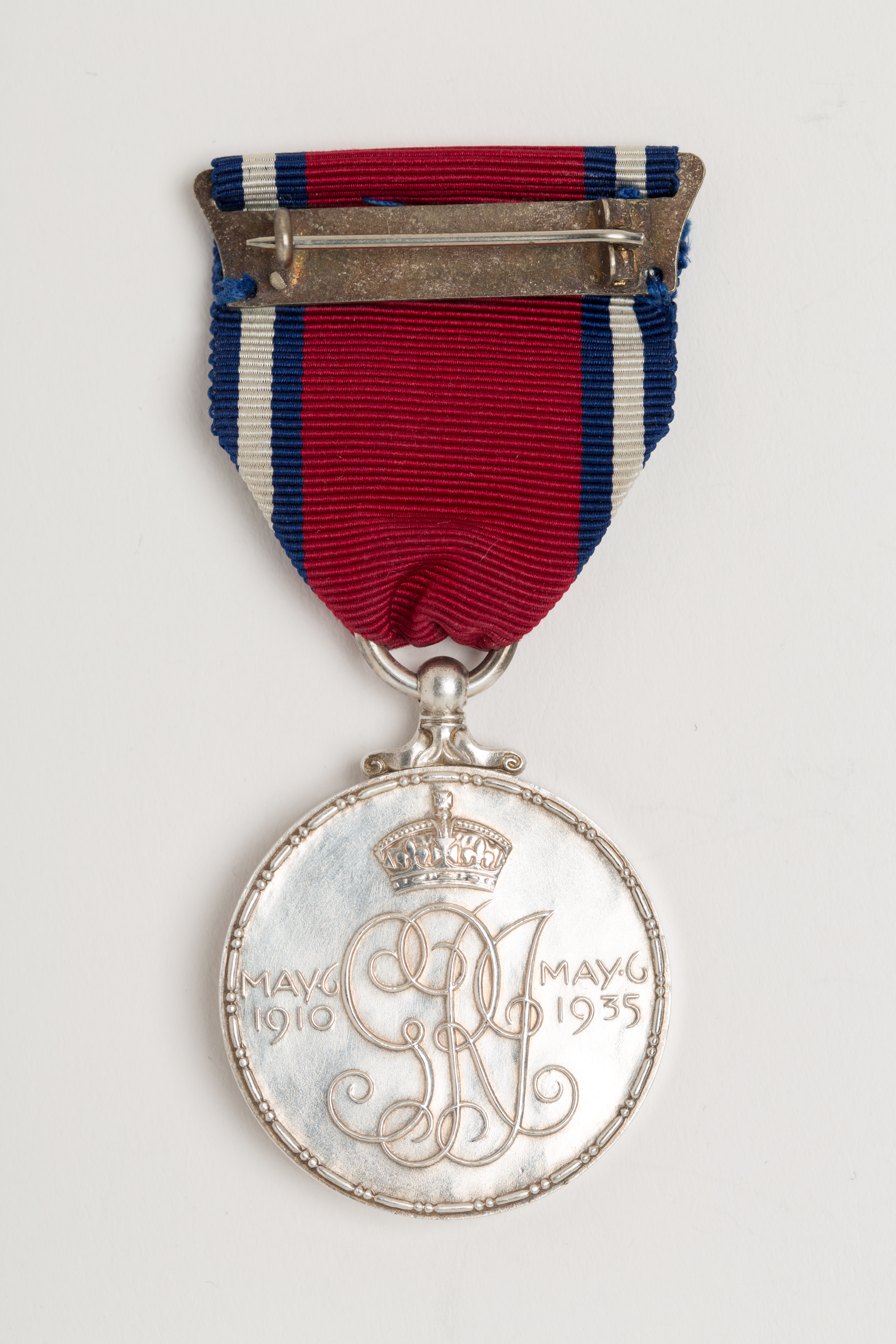 George V Jubilee 1935 Medal awarded to C Reginald Ford (FRIBA FRGS) circular silver medal; with ribbon obverse- conjoined busts of King George V and Queen Mary; GEORGE V AND QUEEN MARY MAY VI MCMXXXV reverse- crown above royal cypher GRI; dates either side- MAY 6 1910 MAY 1 1935 ribbon- crimson with blue, white and blue stripes either side